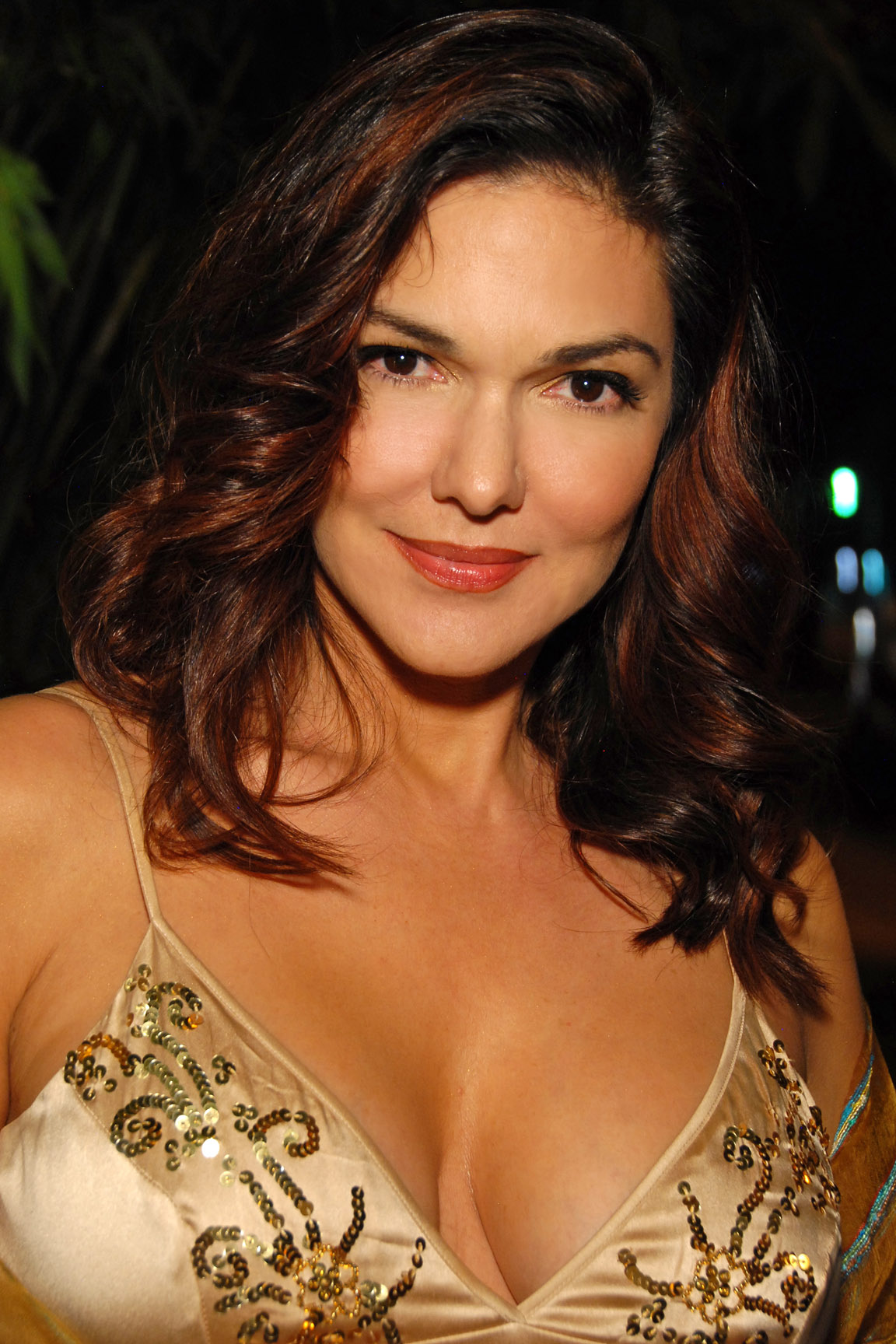 Laura Harring, Los Angeles, CA on August 27, 2011 - Photo by Glenn Francis of